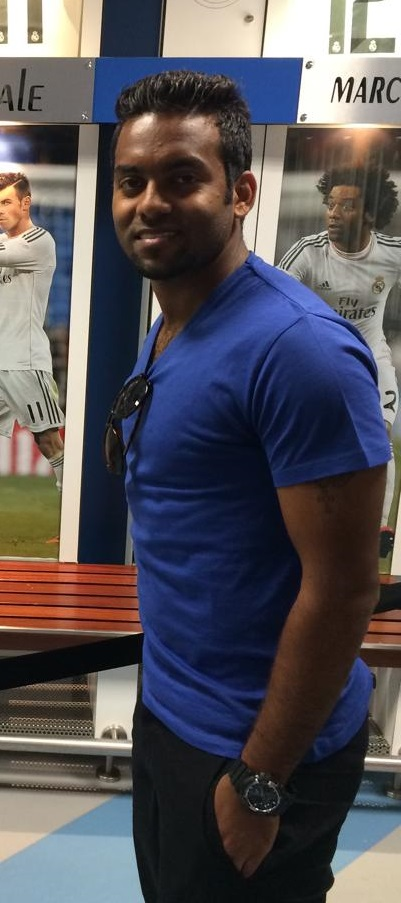 Cavin at Estadio Santiago Bernabéu.